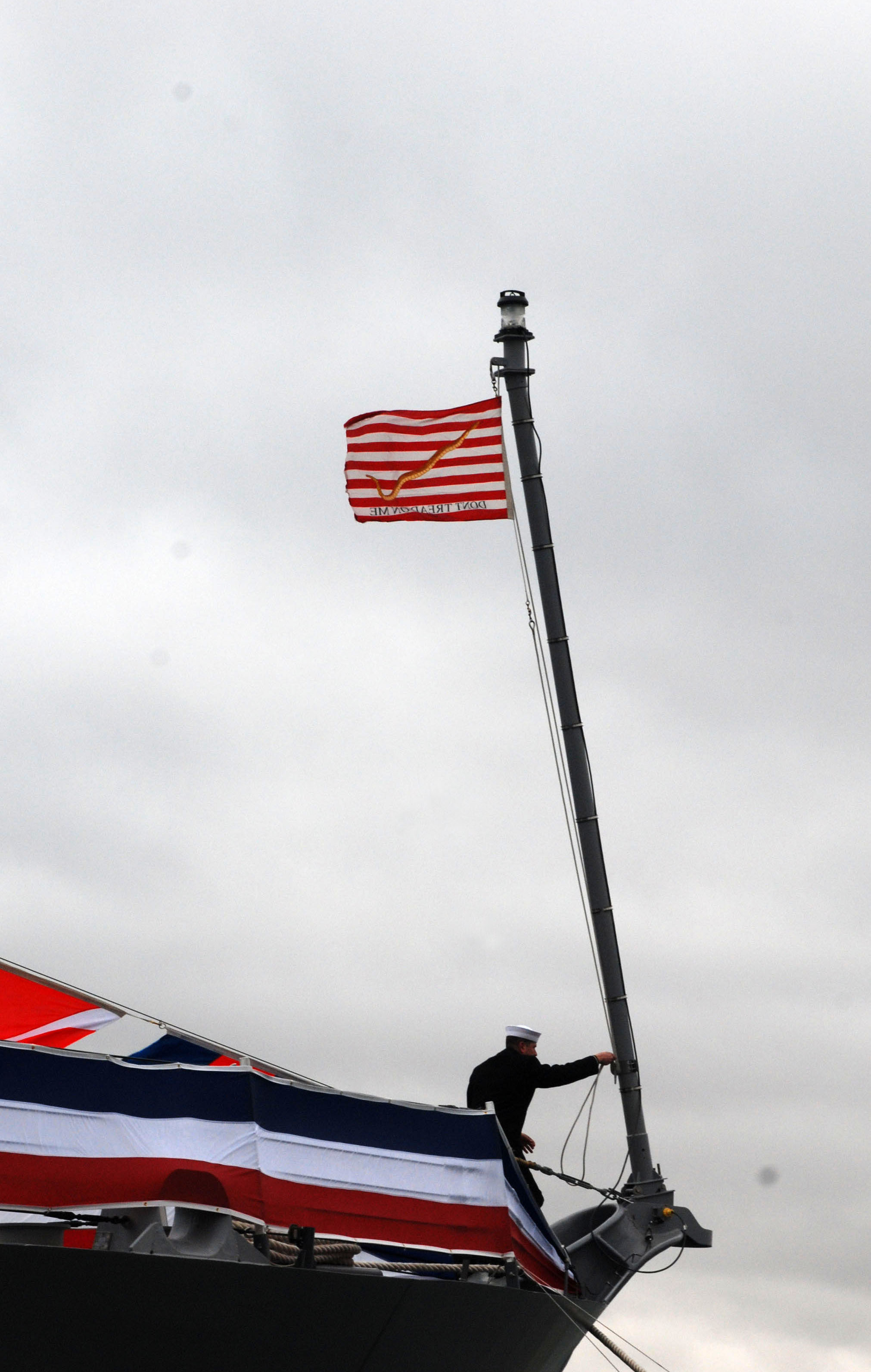 A sailor assigned to the littoral combat ship USS Freedom (LCS 1) hoists the First Navy Jack during her commissioning ceremony at Veterans Park in Milwaukee, Wis. Freedom is the first of two littoral combat ships designed to operate in shallow water environments to counter threats in coastal region